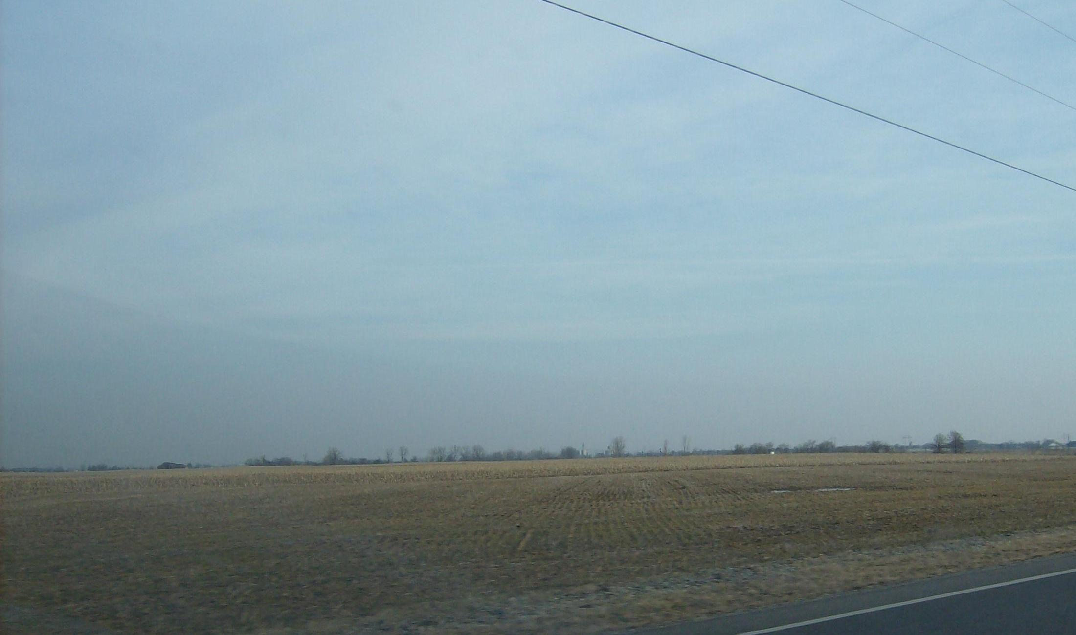 View of farmland in Crane Township, Wyandot County, Ohio, United States. Picture taken from Ohio State Route 67.